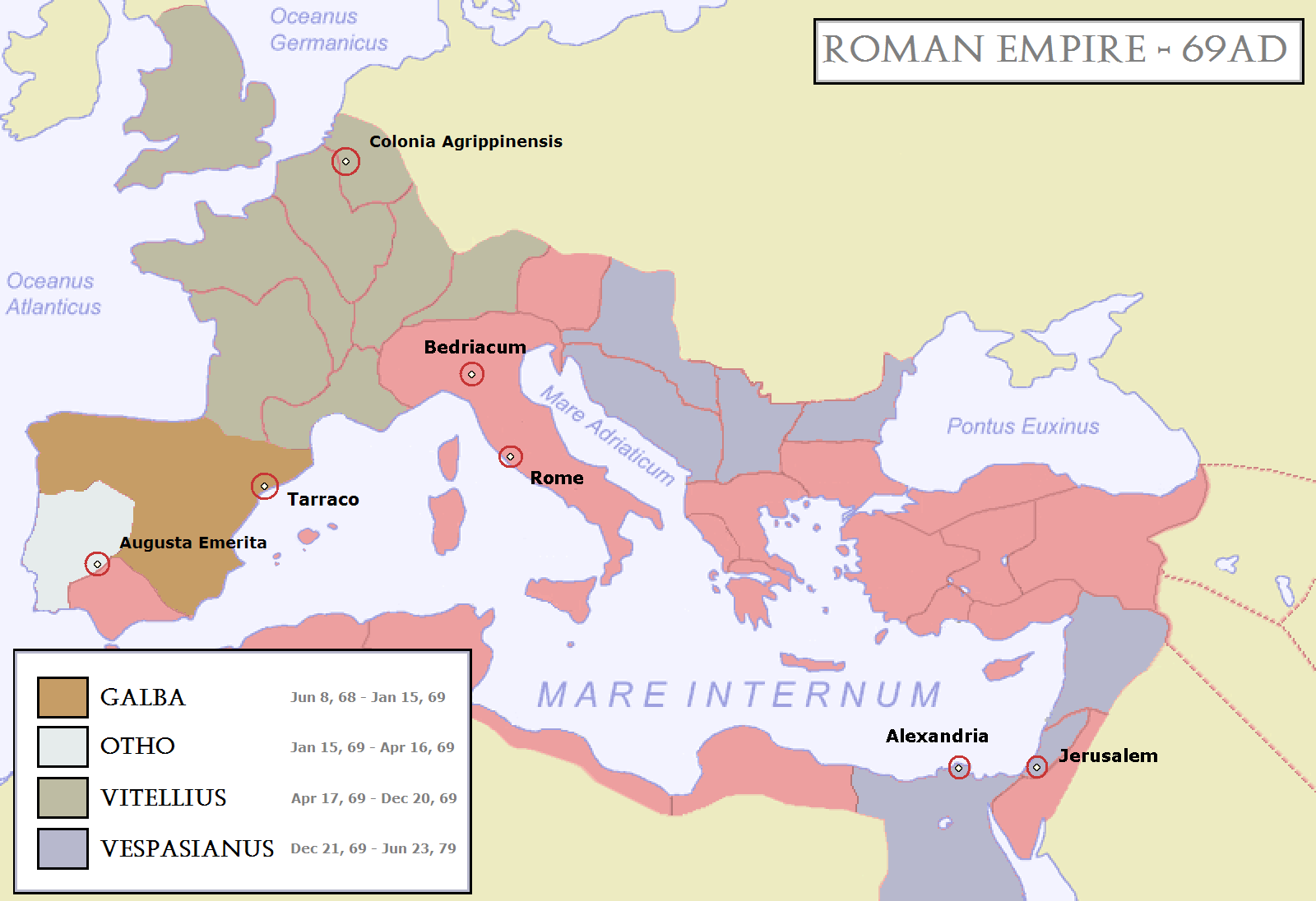 Map of the Roman Empire during 69AD, the Year of the Four Emperors. Coloured areas indicate provinces loyal to one of four warring generals.